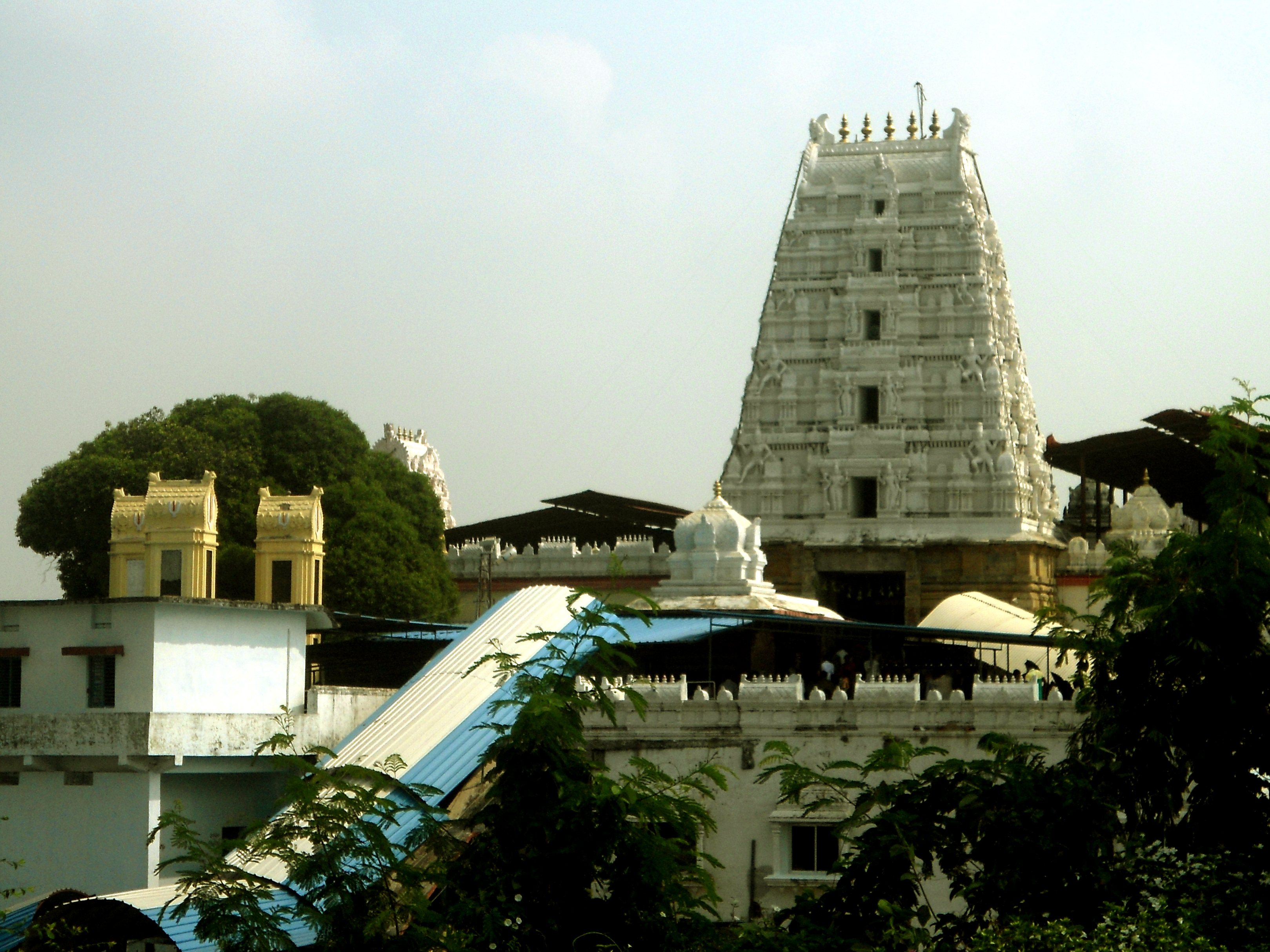 Bhadrachalam temple View from Lord Yogananda Narasimha Temple